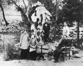 Wang Pixu and his family